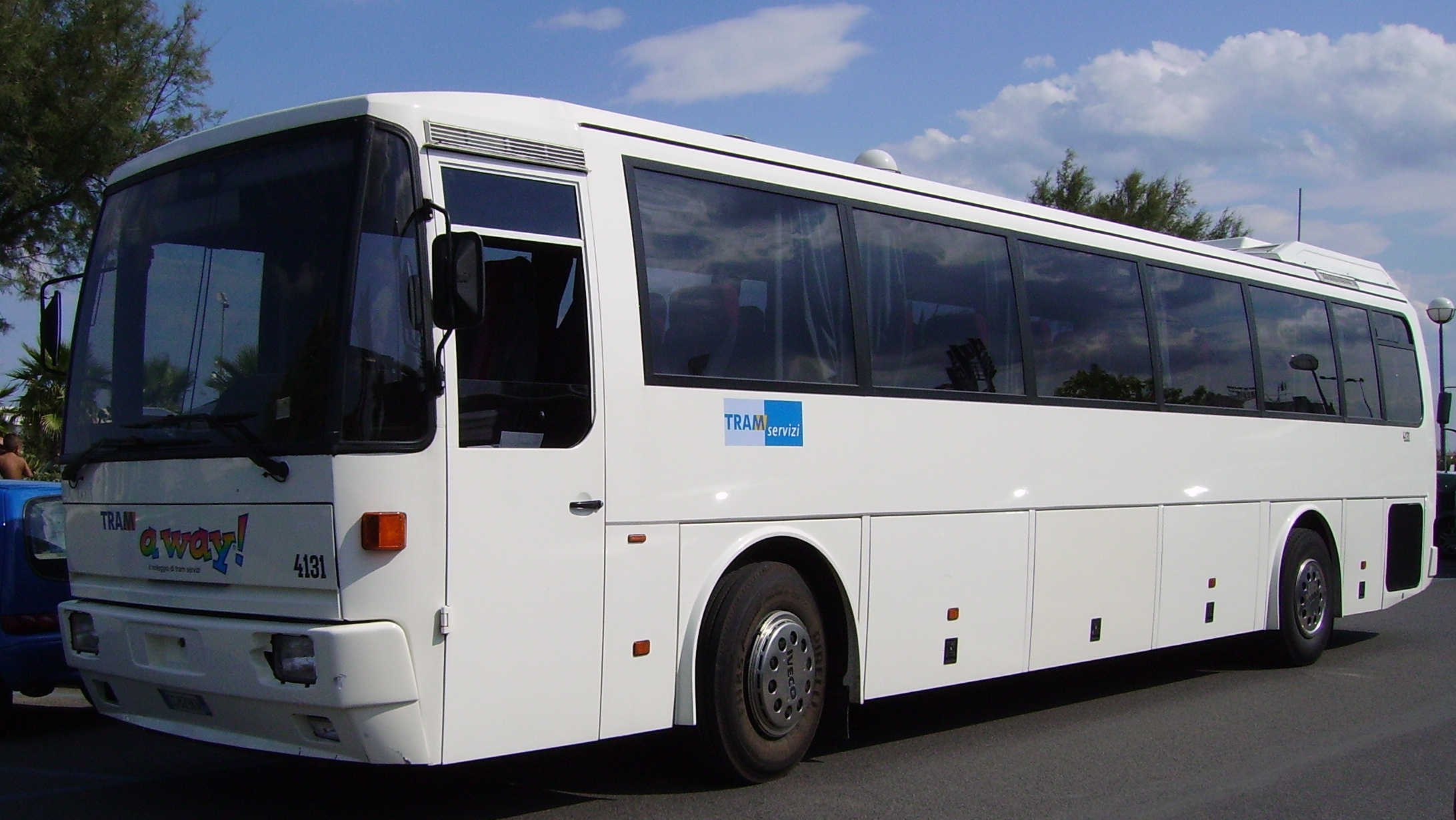 Iveco 370 bus (#4131) in Europe.